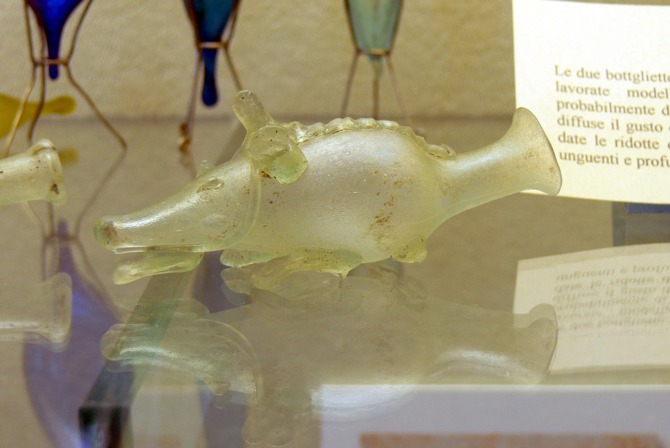 Archeological museum, Aquileia. Ancient Roman balsamery in form of a pig.